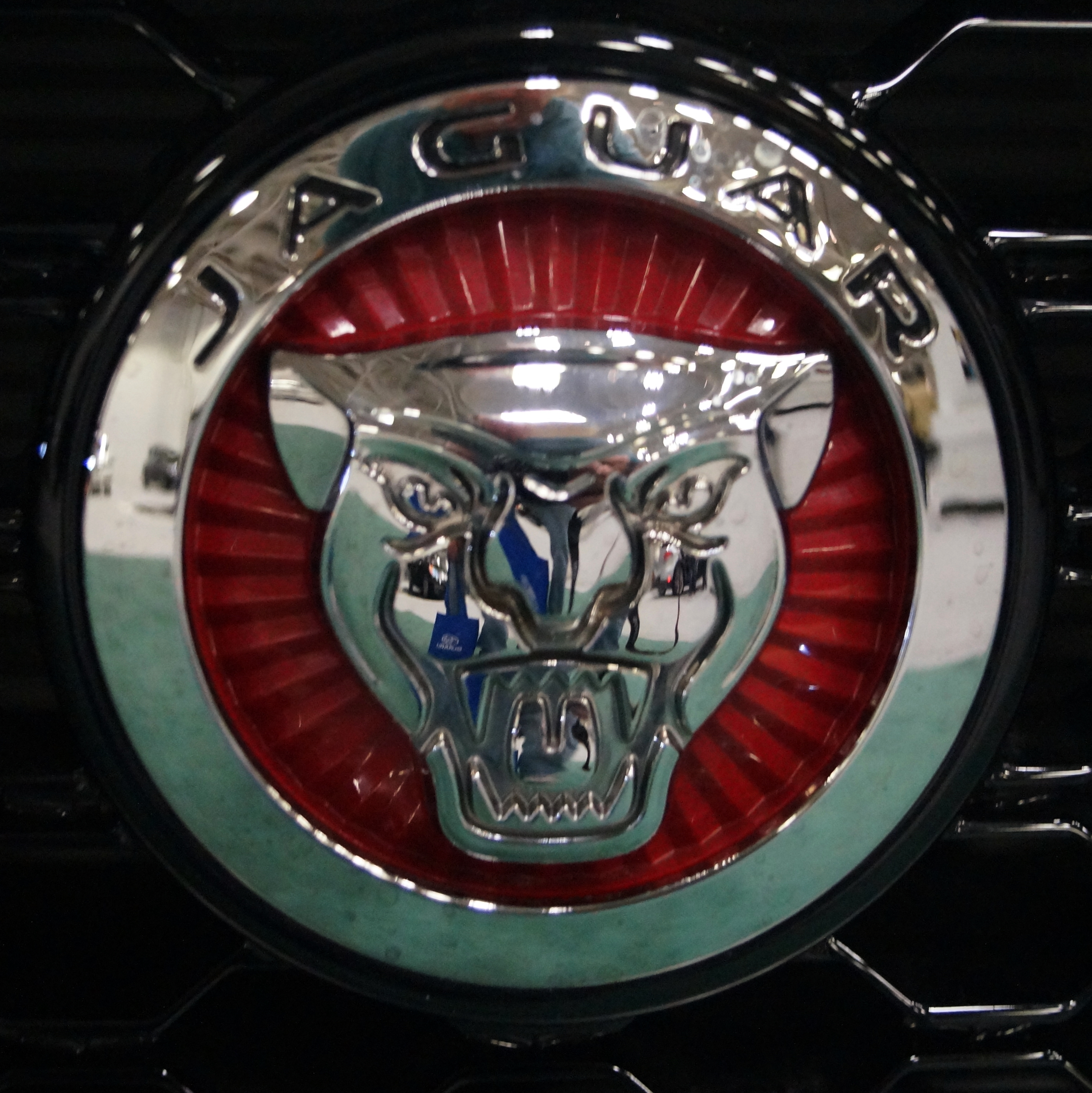 43rd Annual Twin Cities Auto Show Your License to Dream Presented by SA SuperAmerica Minneapolis Convention Center March 12-20, 2016 Click here for more car pictures at my Flickr site.